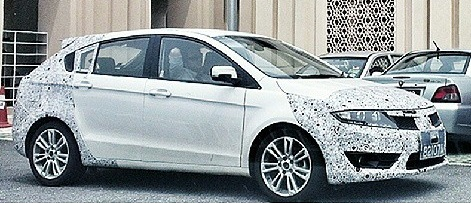 2013 Proton P3-22A in Malaysia. * The car is wrapped in camouflage tape as per company policy and confidentiality purposes. * 'P3-22A' is the official codename of this model, but the unofficial name 'Prevé Hatchback' is also used to denote its relationship to the Prevé saloon.